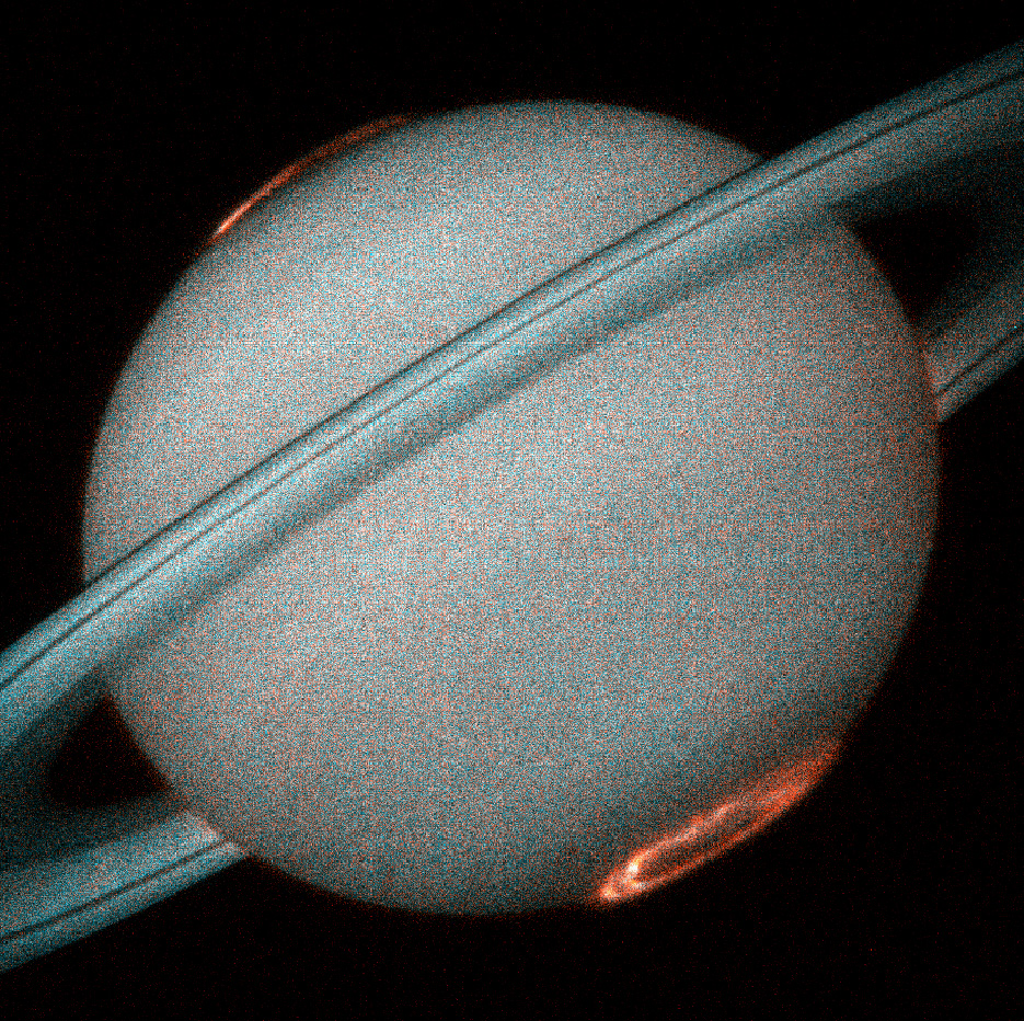 Saturn with ultraviolet Aurorae, photographed in October 1997 by the Hubble Space Telescope's Space Telescope Imaging Spectrograph (STIS) from a distance of 810 million miles (1.3 billion kilometers) • PRC98-05 • ST Scl OPO